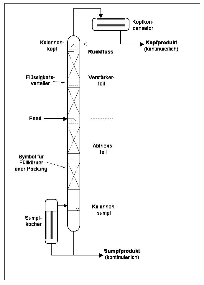 Scheme of a continuous rectification column